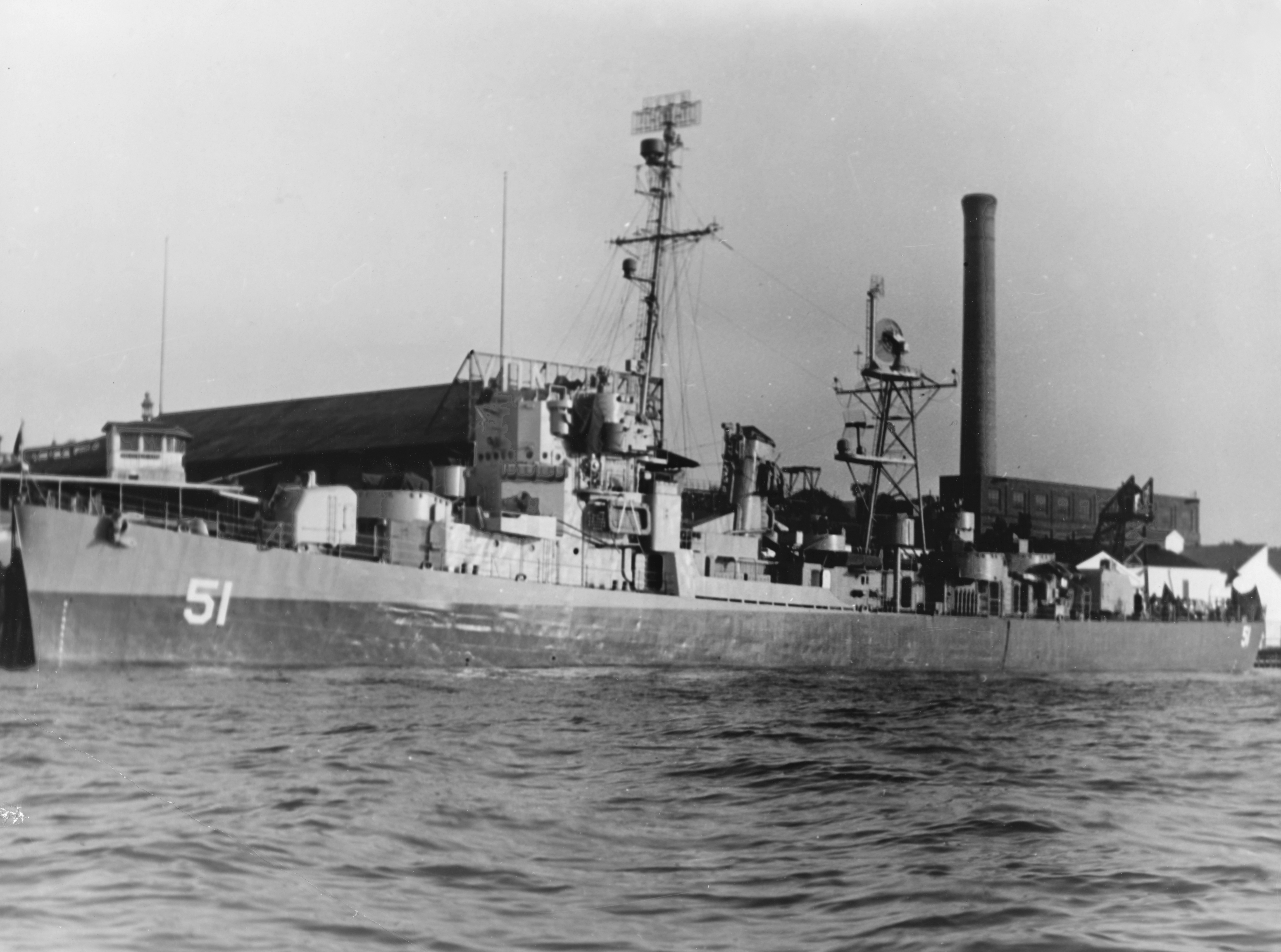 The U.S. Navy destroyer escort USS Buckley (DE-51), following her conversion to a radar picket ship, circa in late 1945. Note her newly-fitted 127mm/38 main battery guns, the mainmast, carrying the SP radar and the unusually large hull numbers. Buckley was decommssioned on 3 July 1946 and was redesignated DER-51 between 26 April 1949 and 29 September 1954, while being in reserve.